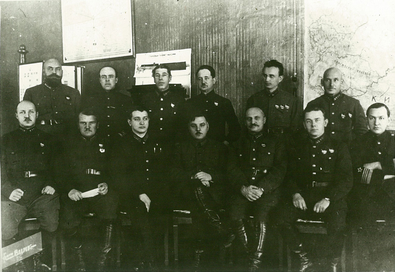 Meeting of Red Army military district commanders. Sitting (from left to right): G.D.Bazilevich, M.K. Levandovsky, Mikhail Nikolayevich Tukhachevsky, K.E. Voroshilov, N.N. Petin, A.I.Kork, W.M. Orlov. Standing (from left to right): A.V.Pavlov, M.V.Viktorov, Boris Mikhailovitch Shaposhnikov, A.K.Vekman, I.P.Uborevich, K.A. Avksentevky